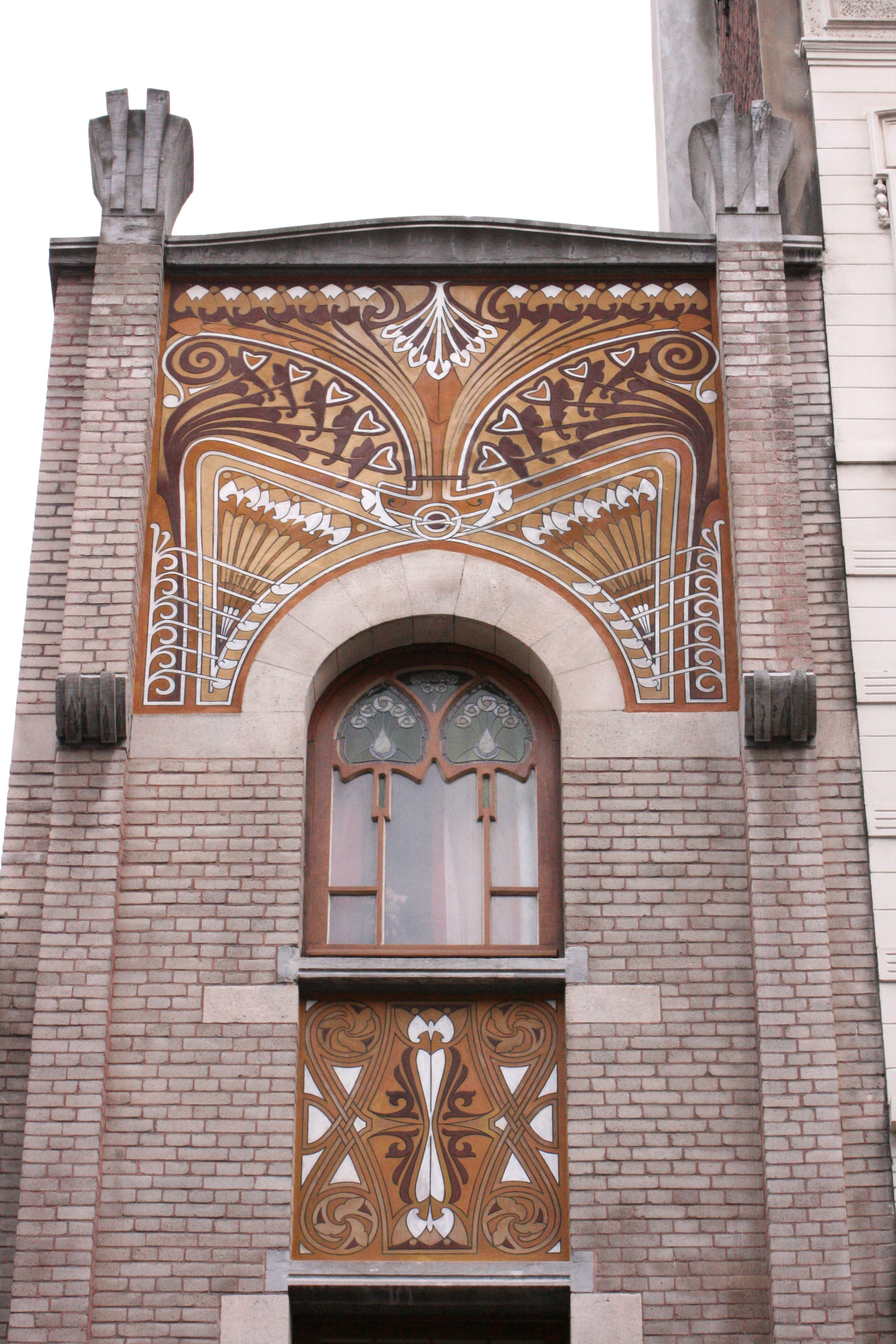 Maison Cortvriendt, 6-8 rue de Nancy, Brussels (Belgium). Architect Léon sneyers. Sgraffitoes by Adolphe Crespin (1900)